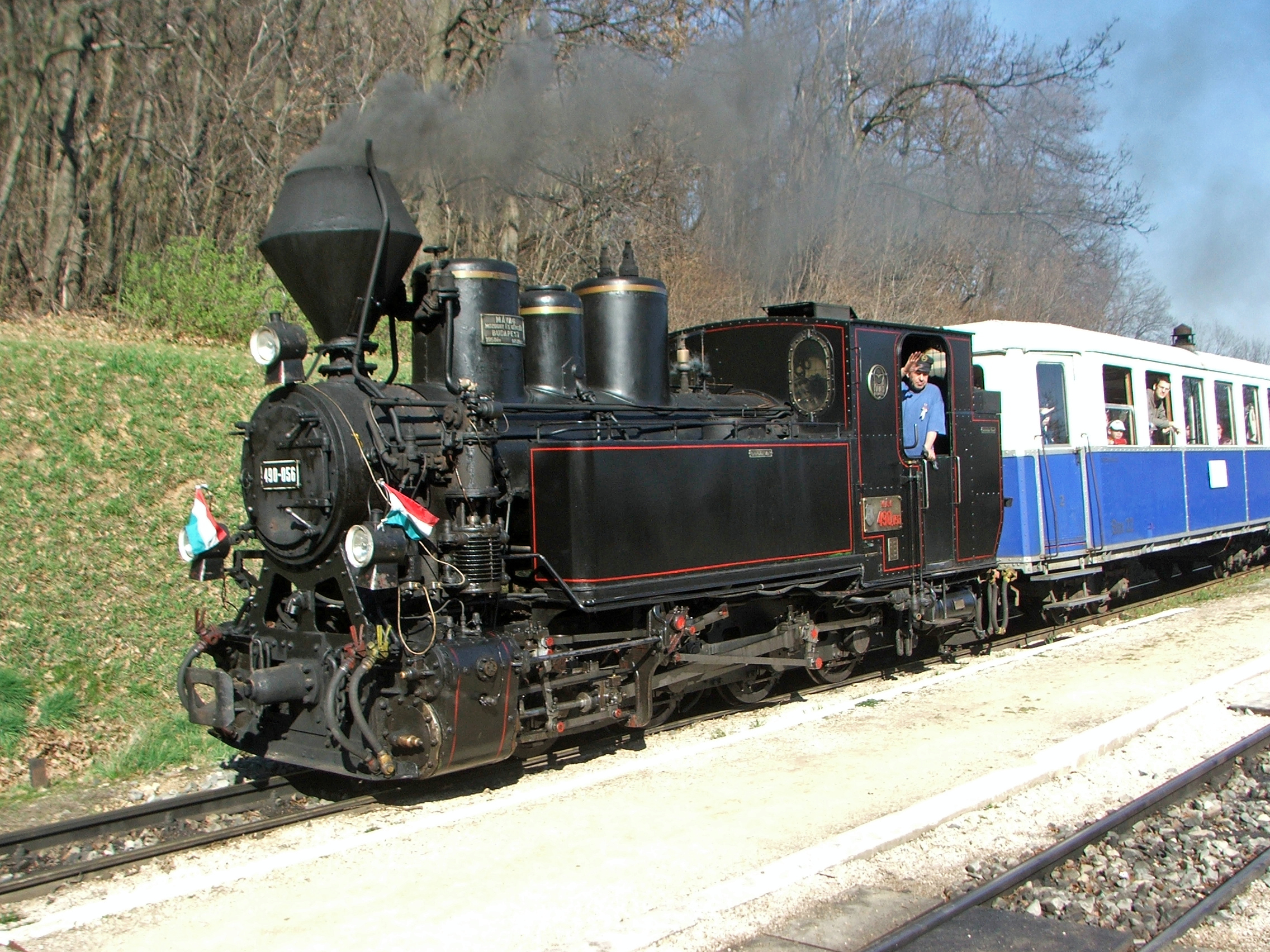 Steam-hauled nostalgia train in child railroad, Budapest